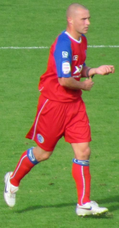 Ben Herd